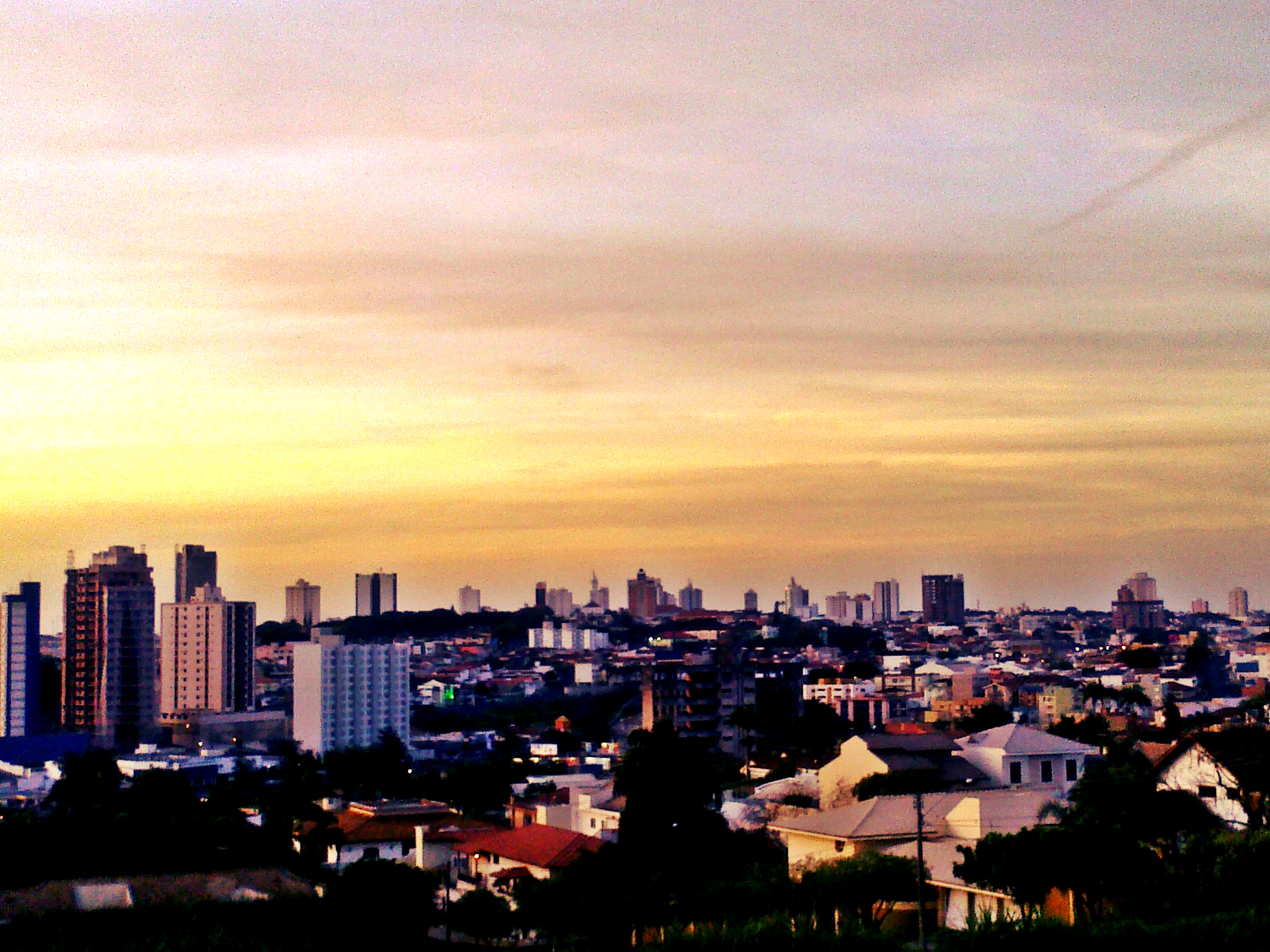 View from the Jardim Veneza neighborhood.